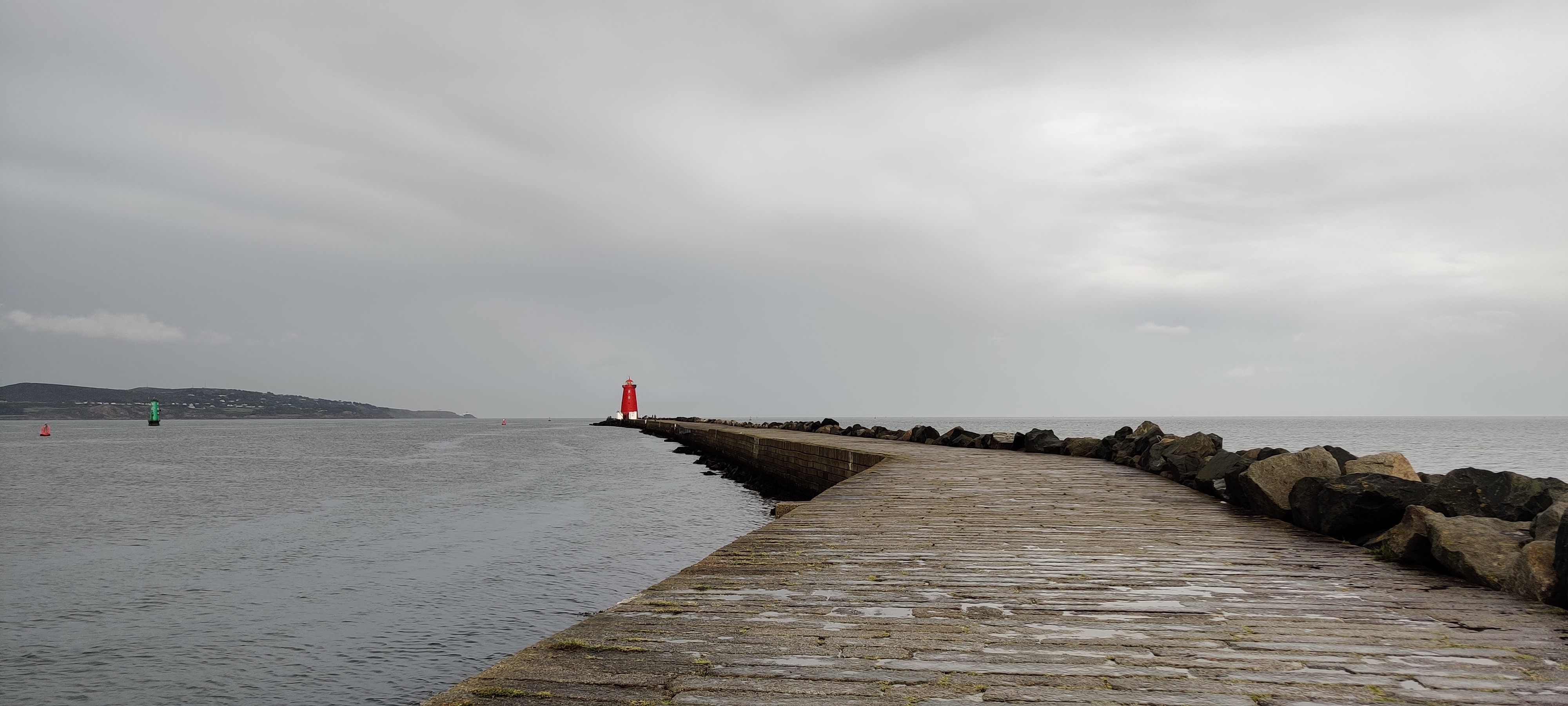 Poolbeg Lighthouse